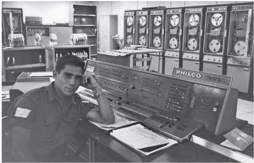 Philco 211 computer at IDF Mamram unit, 1962